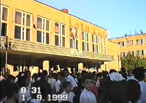 Samvel Gevorgyan School No. 189. (personal archive footage snapshot)